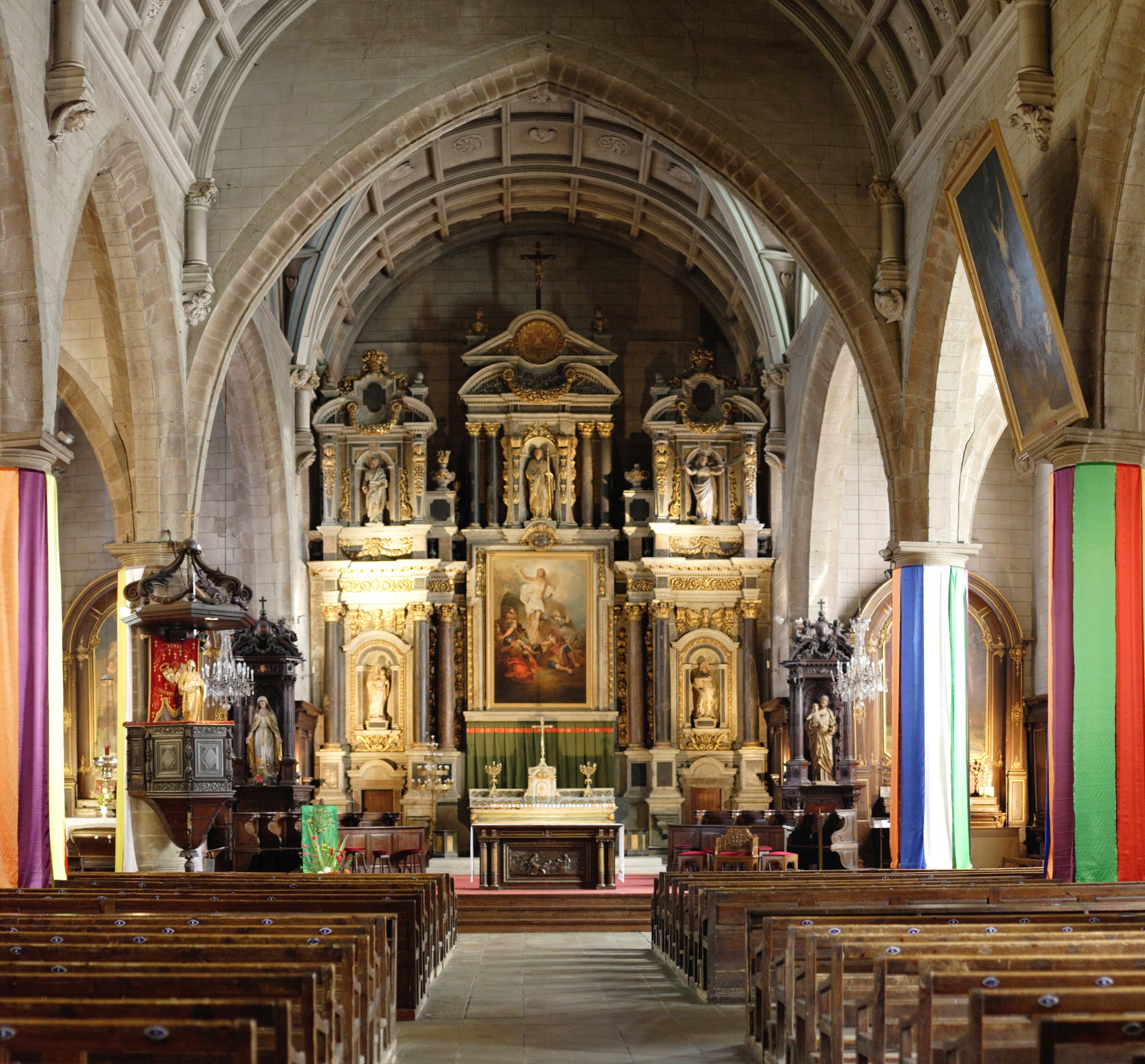 Inside Church Saint-Gildas in Auray, France